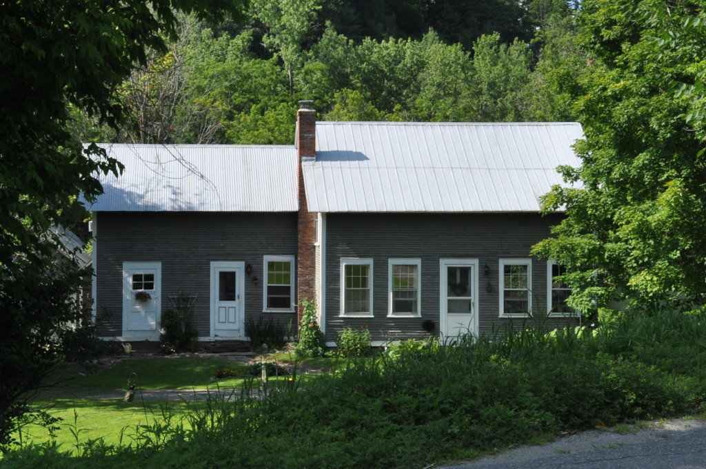 One of two houses surviving from the Royalton Mill Complex, Royalton, Vermont.